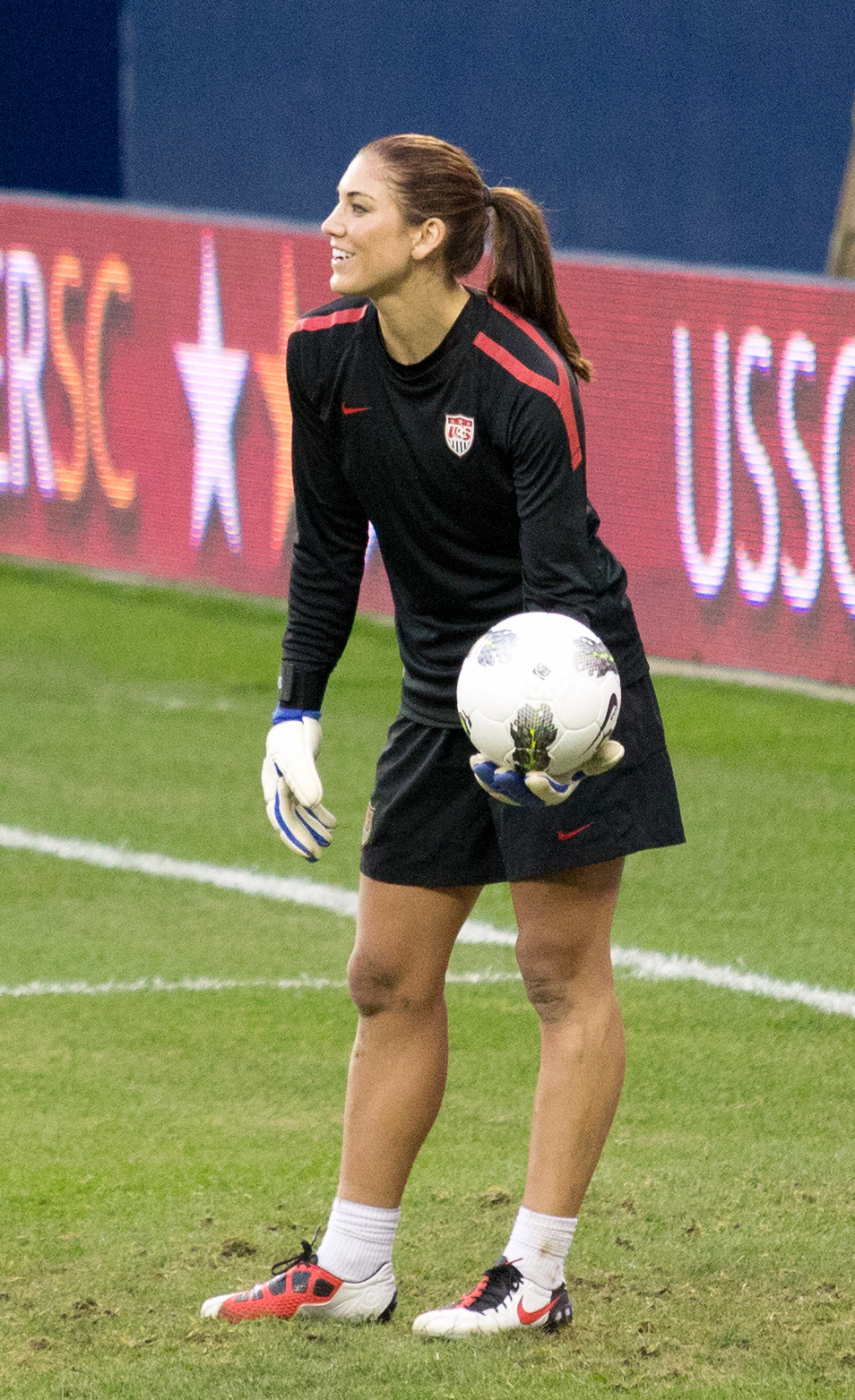 Hope Solo of the United States Women's National Soccer team warming up prior to a friendly match against Canada on September 17th, 2011.